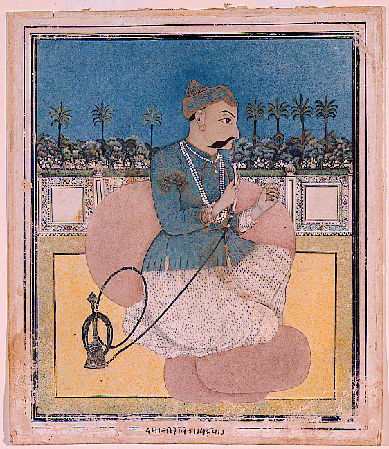 Posthumous portrait of Damaji Rao, the founding ancestor of the maharajas of Baroda